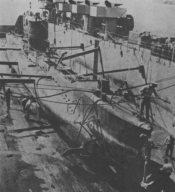 Imperial Japanese Army Type 3 submergence transport vehicle-I Yu 3